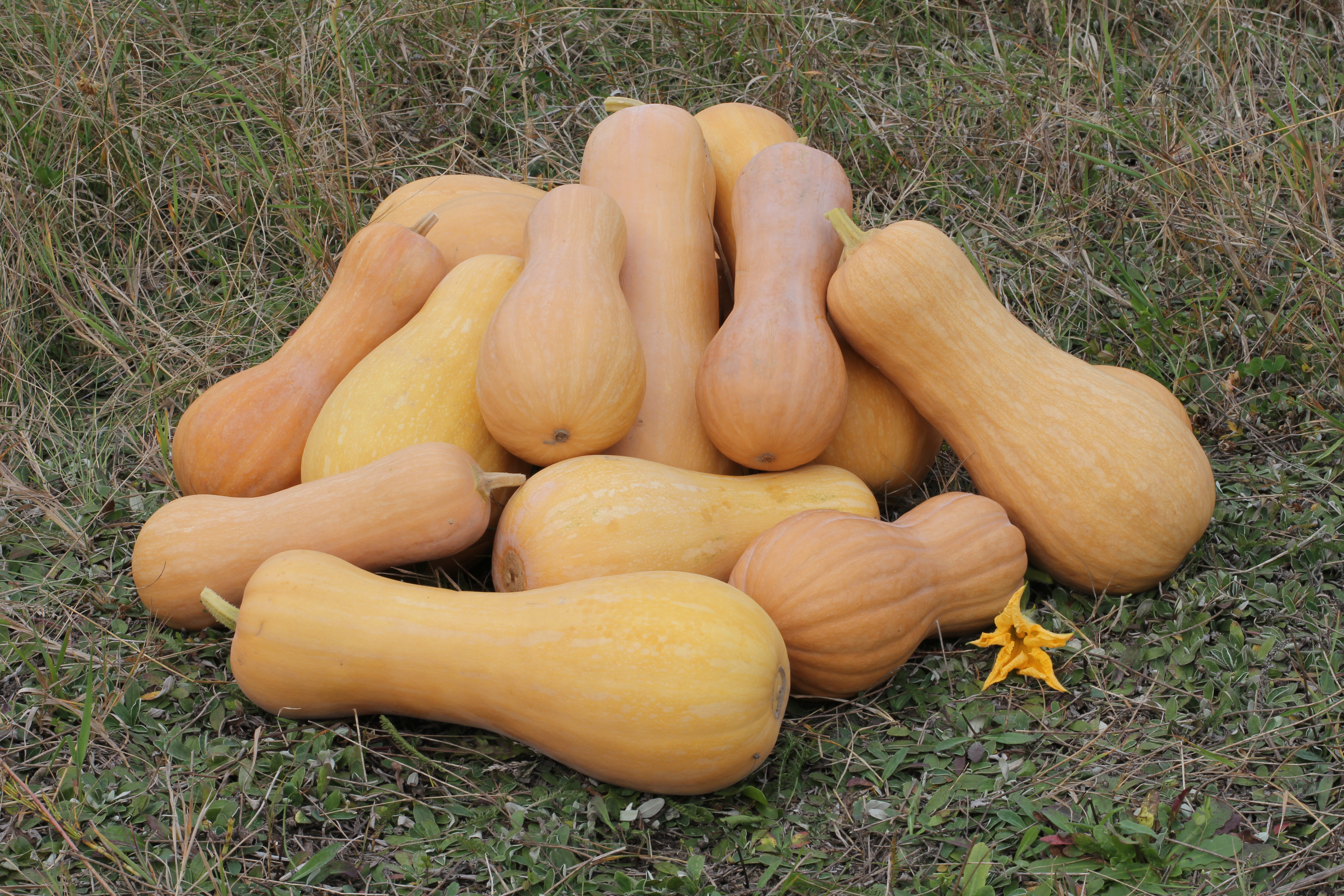 Butternut squash, cultivar variety of Cucurbita moschata, ripe fruits. Ukraine.